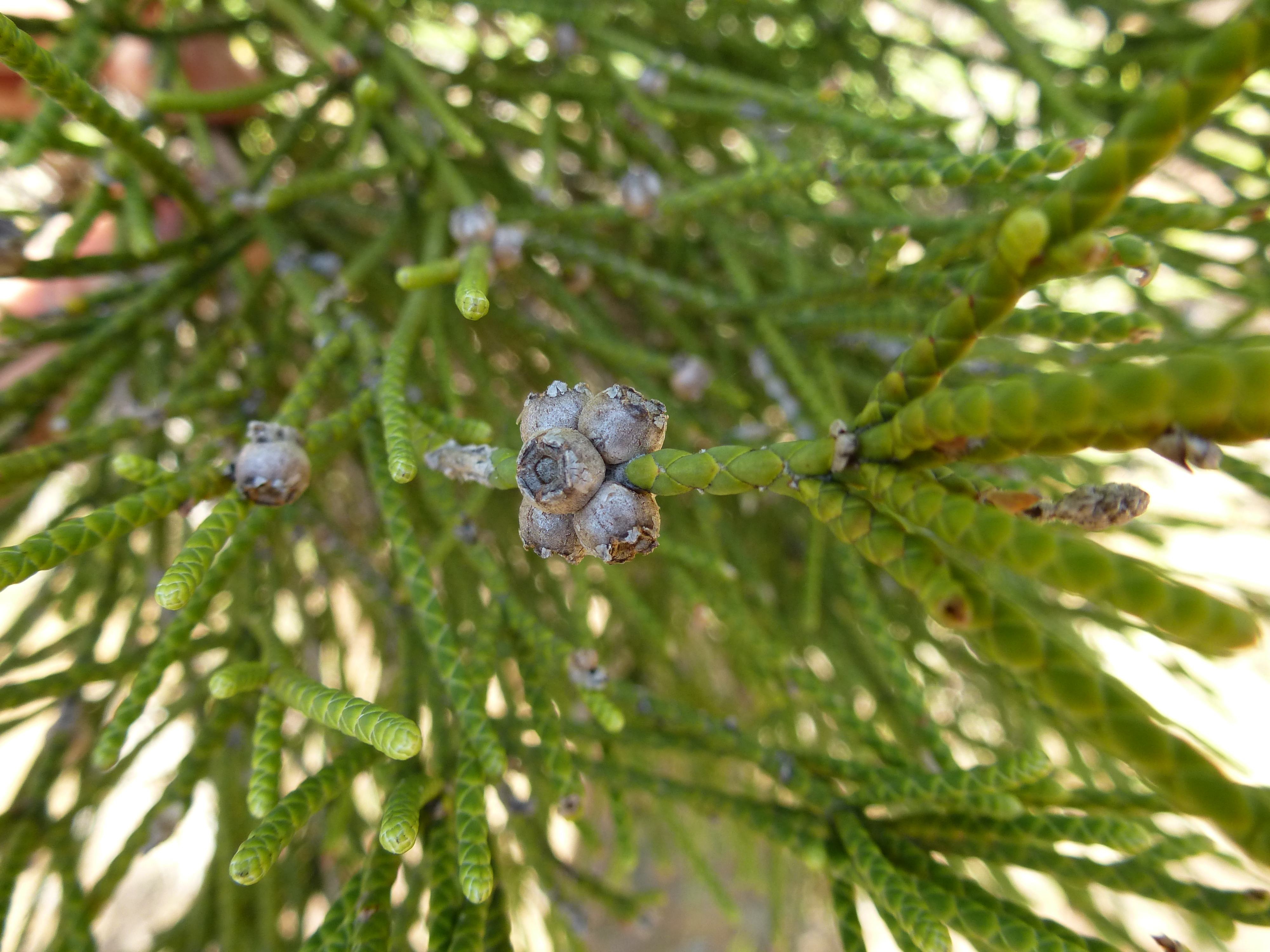 Melaleuca foliolosa fruiting capsules